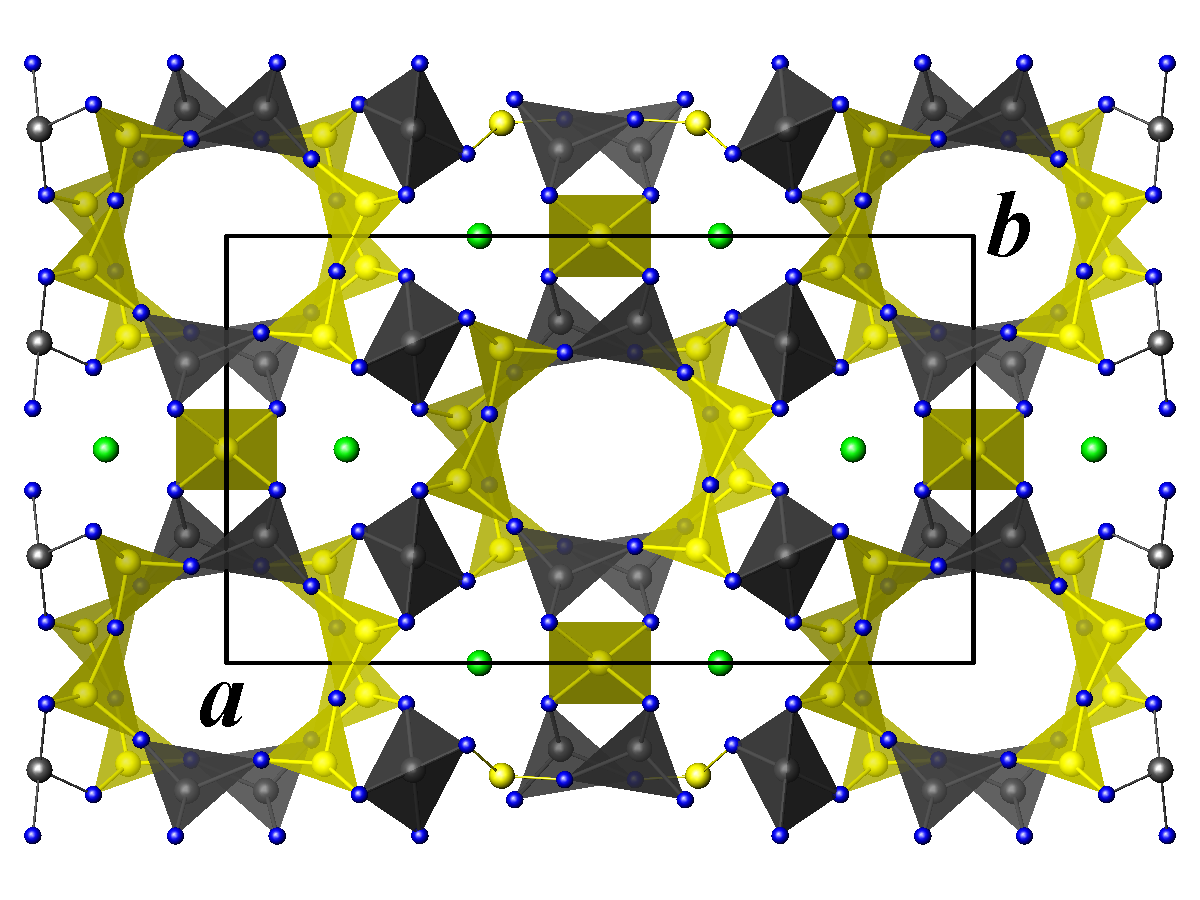 Crystal structure of cordierite. Green: magnesium atoms, blue: oxygen atoms, yellow: silicon & aluminium atoms.